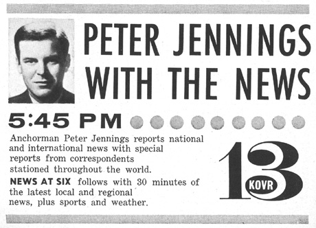 A Peter Jennings Ad for KOVR channel 13 in Sacramento